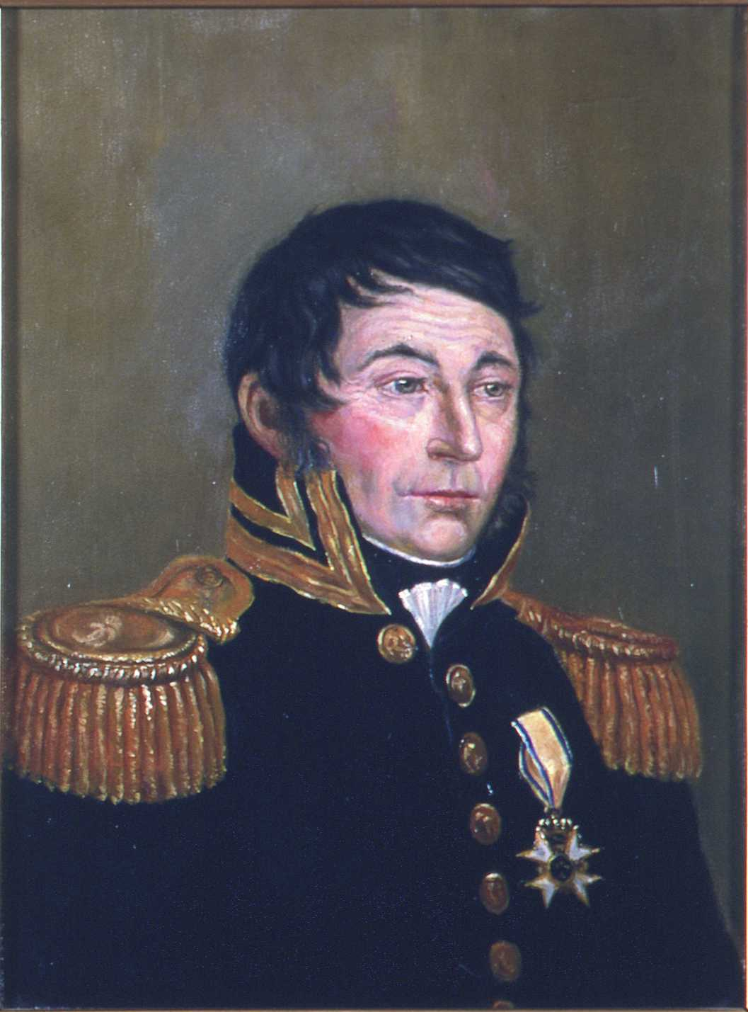 Painting by Wilhelm Holter, copy after unknown original